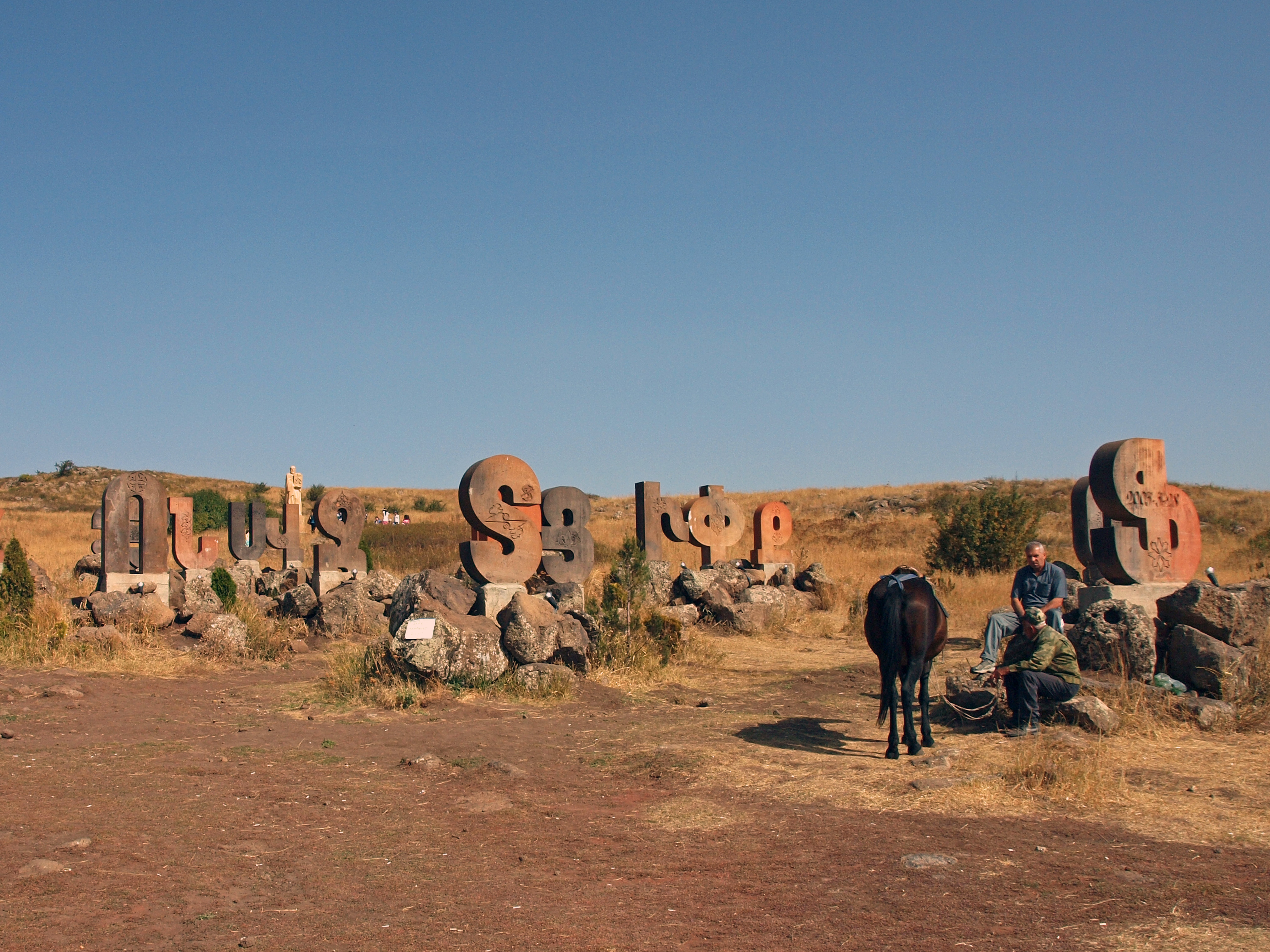 Large carved letters on the road to Amberd